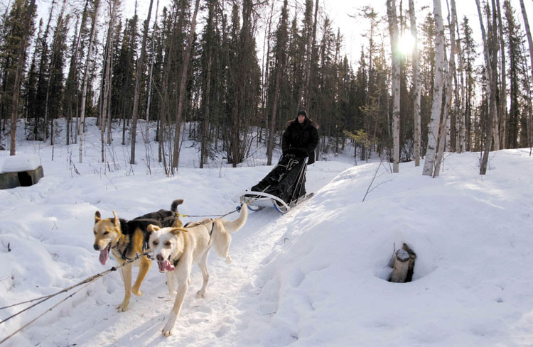 Caption: HOUSTON, Alaska -- Maj. (Dr.) Thomas Knolmayer leads his team on a practice run. The two dogs in front of the sled are called wheel dogs and have to be stronger than the other 10 to 12 dogs on the team so they can pull the sled around corners and over hills. Dr. Knolmayer is a staff surgeon with the 3rd Medical Operations Squadron at nearby Elmendorf Air Force Base. (U.S. Air Force photo by Senior Airman Joe Laws)